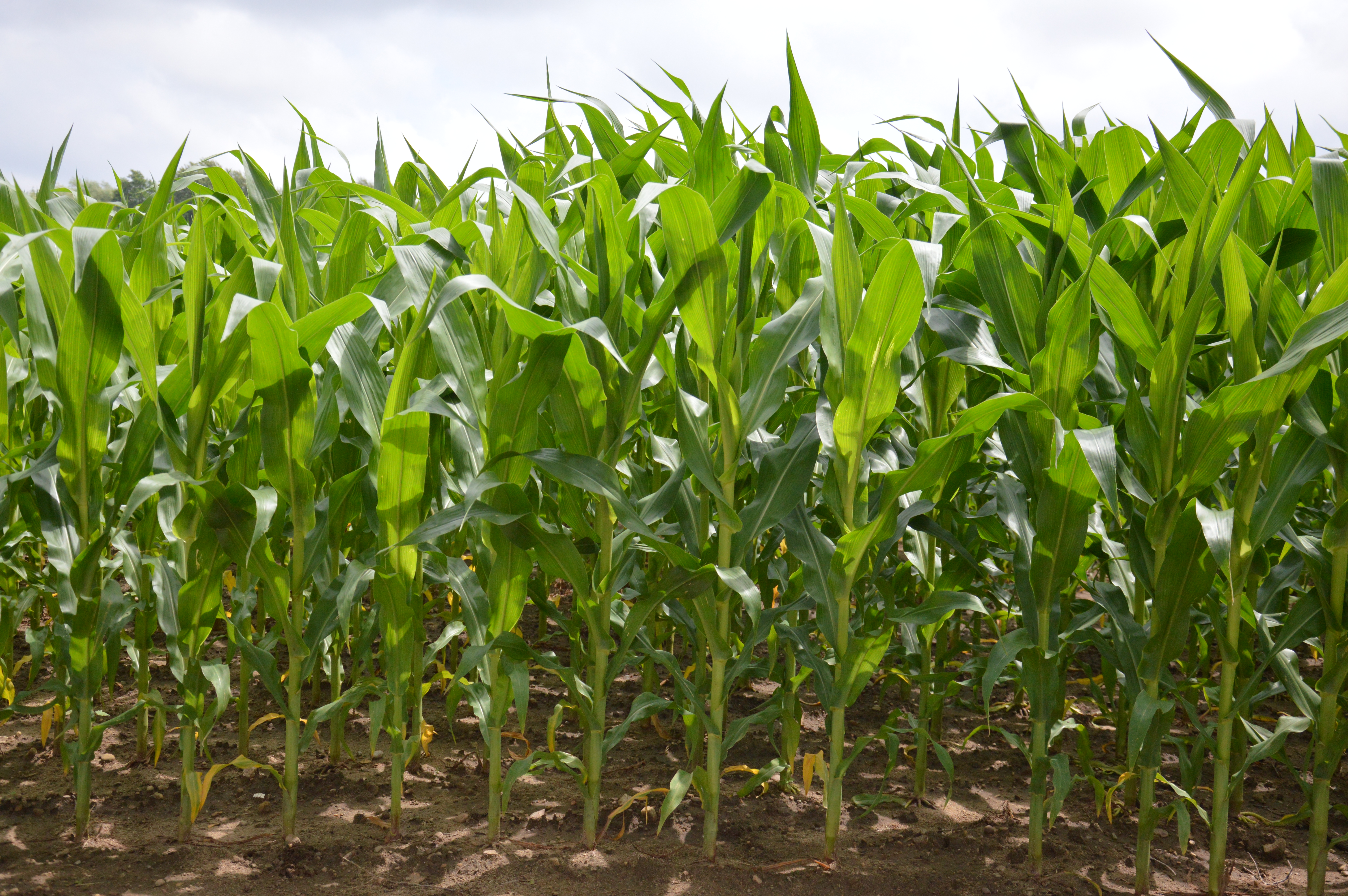 Corn field in Delhi, Ontario, Canada